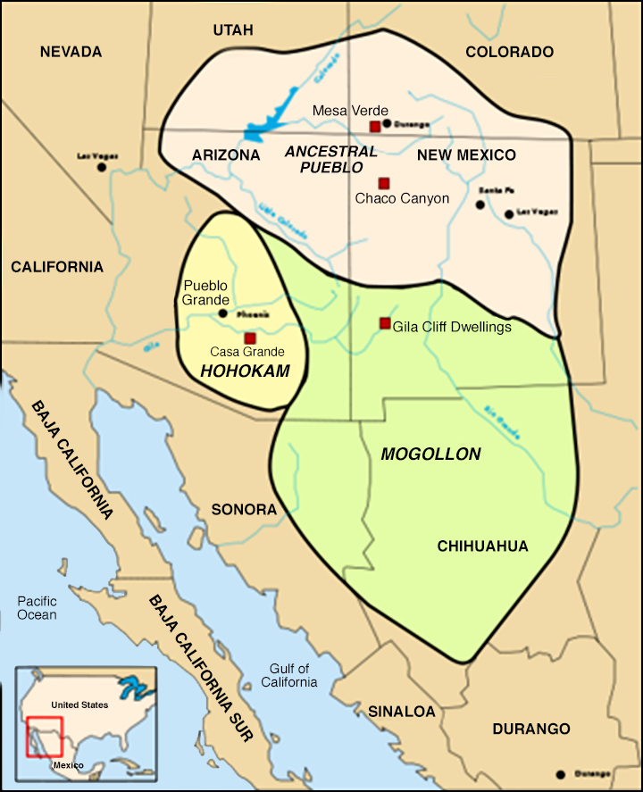 Map of Hohokam, Ancestral Pueblo, and Mogollon cultures, circa 1350 CE, based on . Includes national and state borders and cities that did not exist at the time.